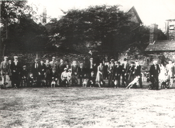 Very first Staffordshire Bull Terrier show, held on the blowing green of the Conservative Club at Cradley Heath, England, early 1935.